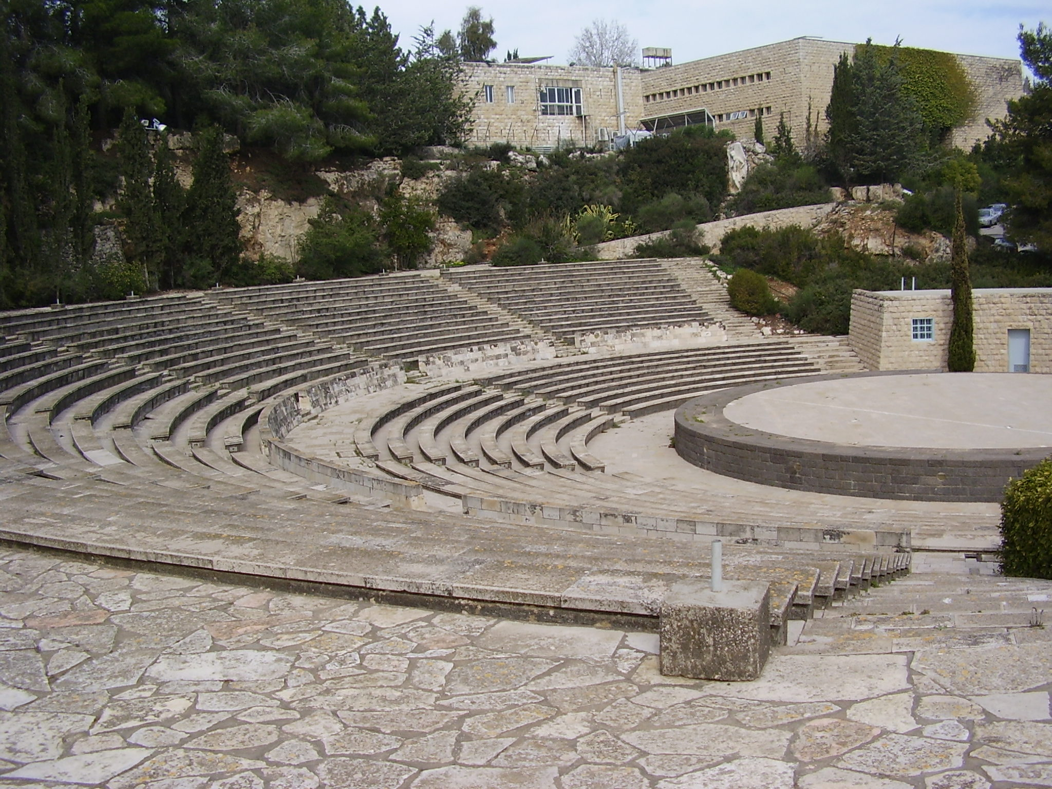 the theatre in giv\'at ram campus of the hebrew university in jerusalem